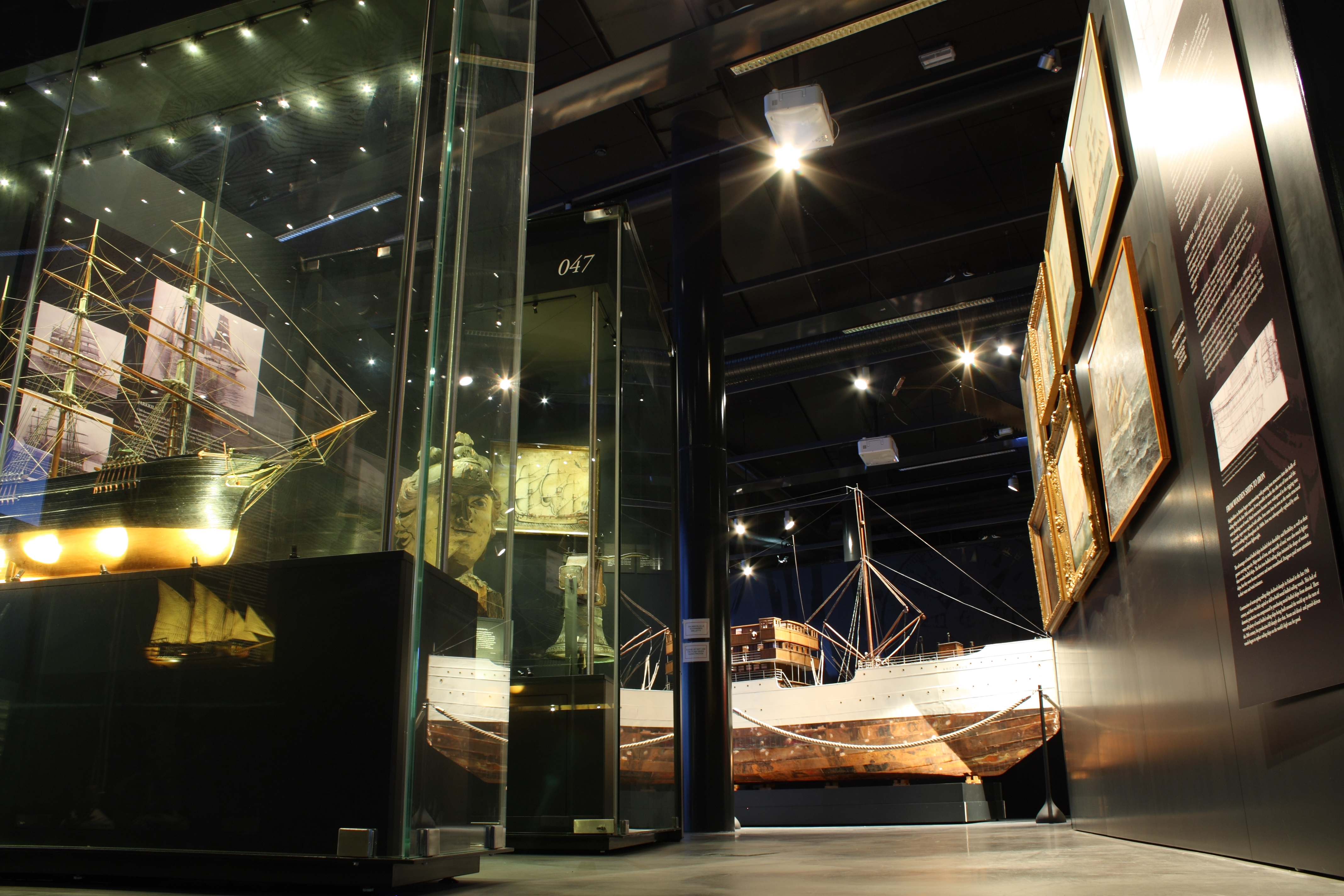 Maritime Museum of Finland in Kotka.